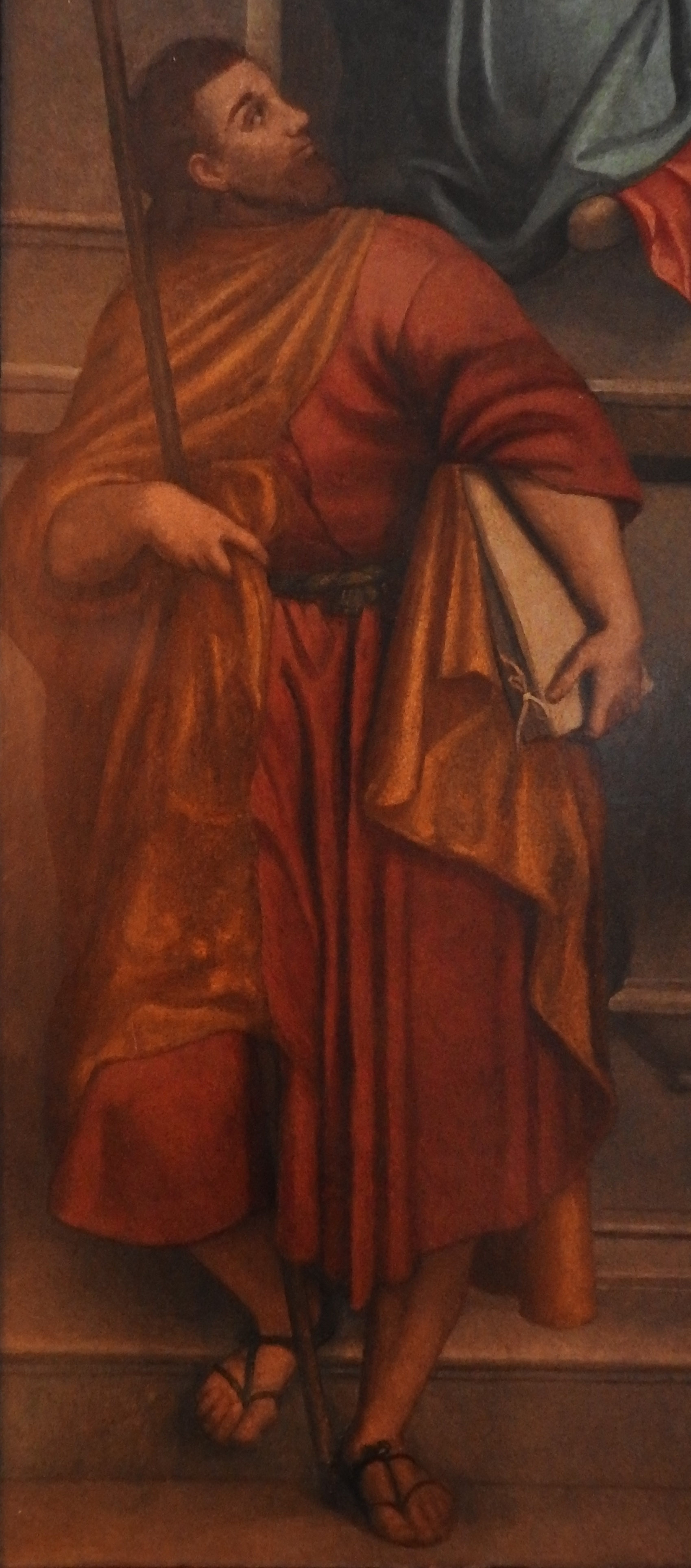 Giovan Battista Moroni 1561-62.